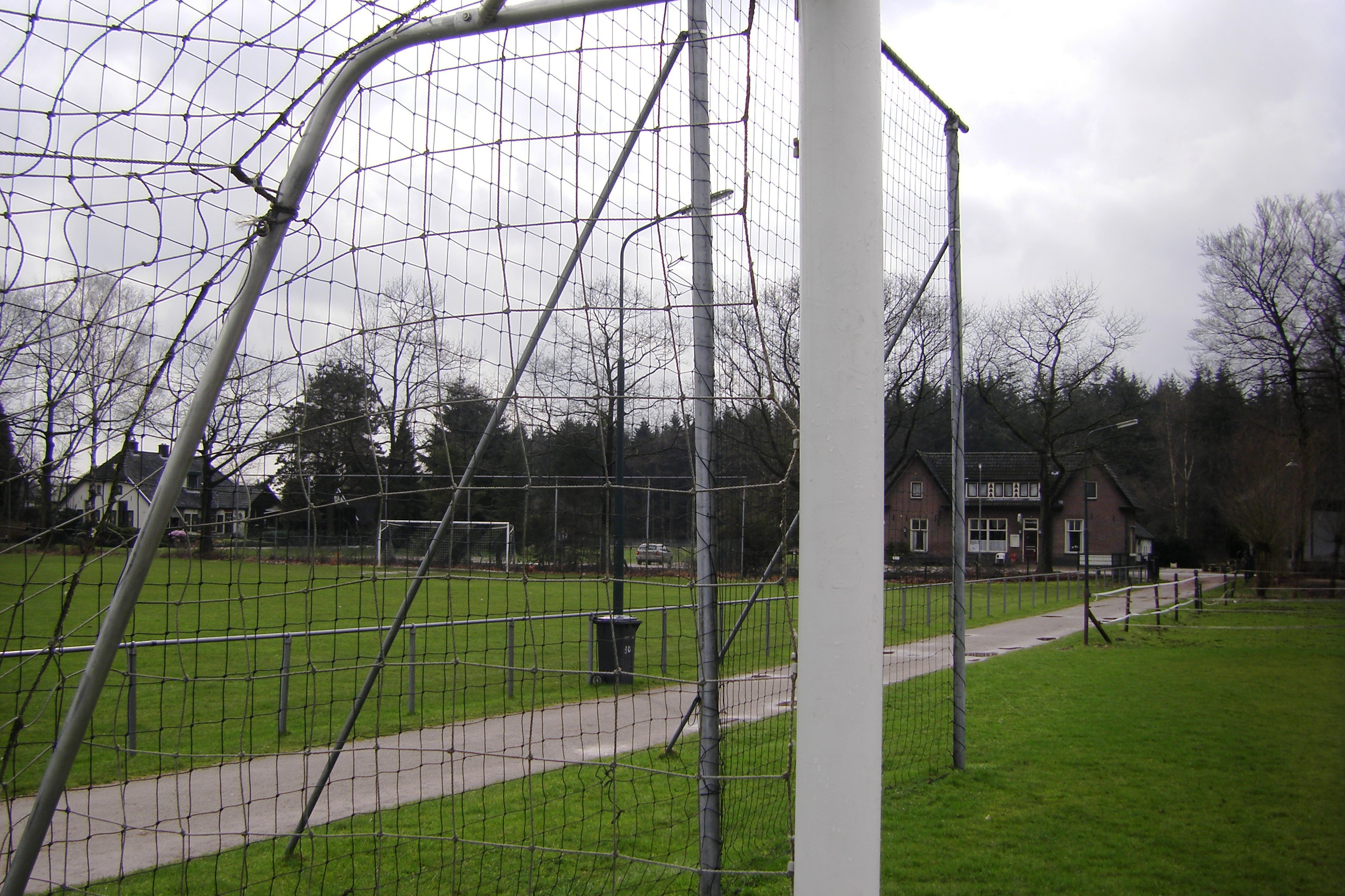 footballfield of fc oeken